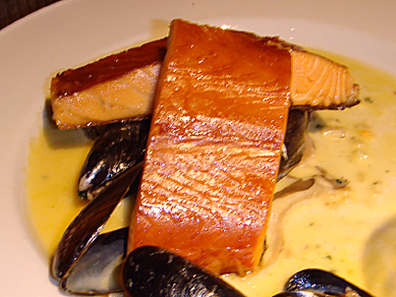 Kiln-roasted salmon char-grilled with a shellfish, mushroom and whisky sauce at Loch Fyne, Newhaven Harbour, Edinburgh